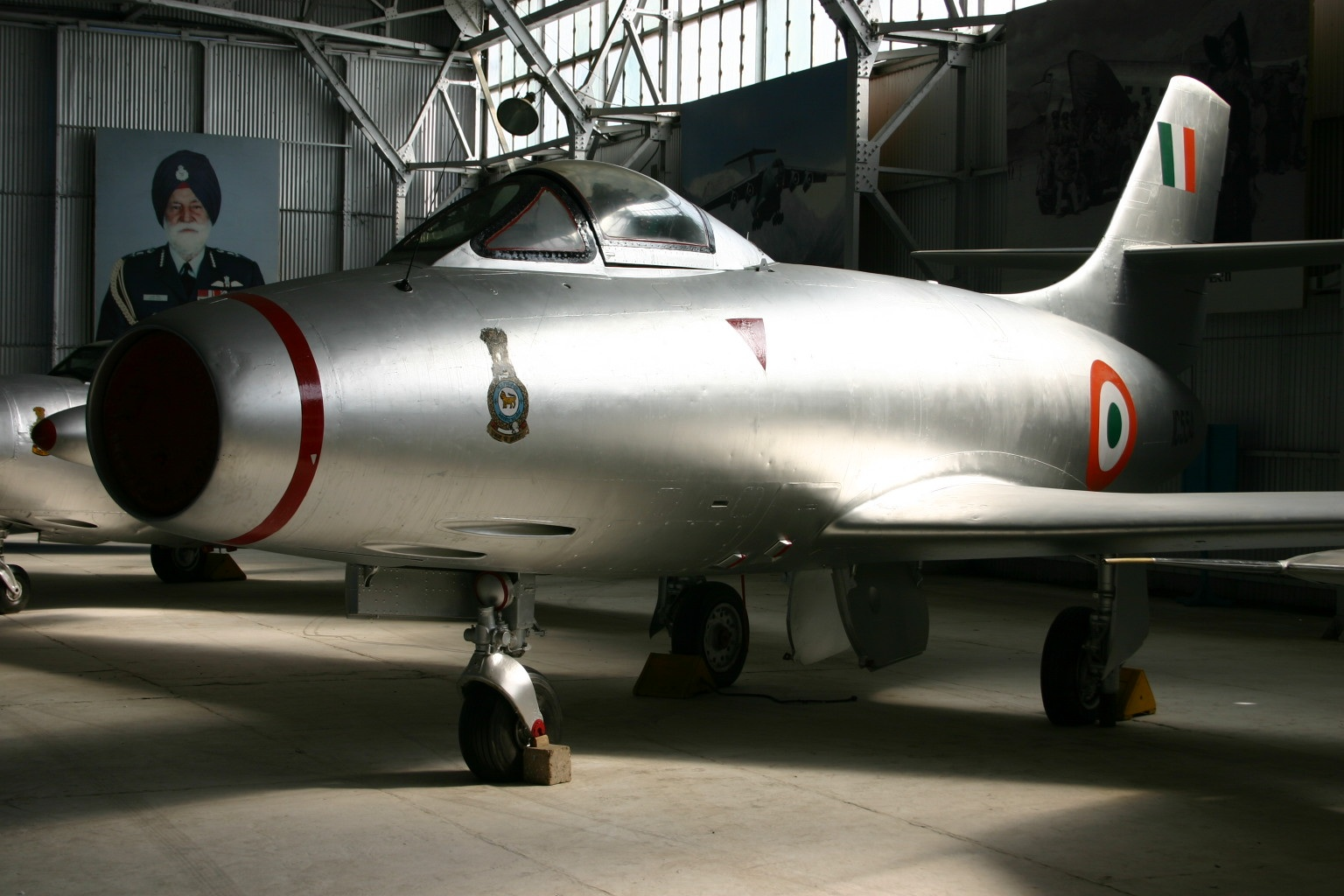 Dassault Ouragan at Indian Air Force Museum Palam